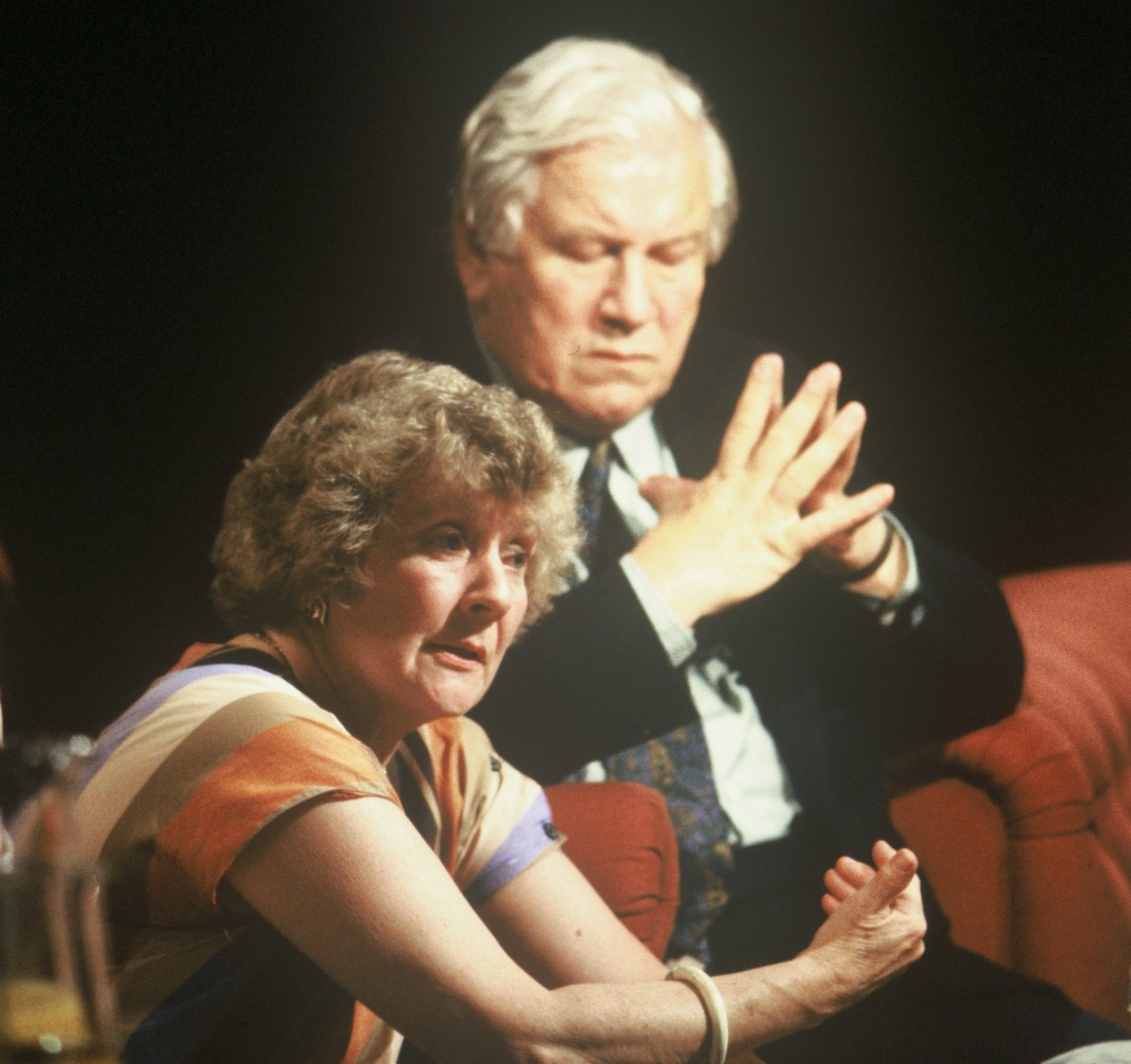 Shirley Williams appearing with Peter Ustinov on television programme After Dark on 10 June 1989, (c) Open Media Ltd 1989